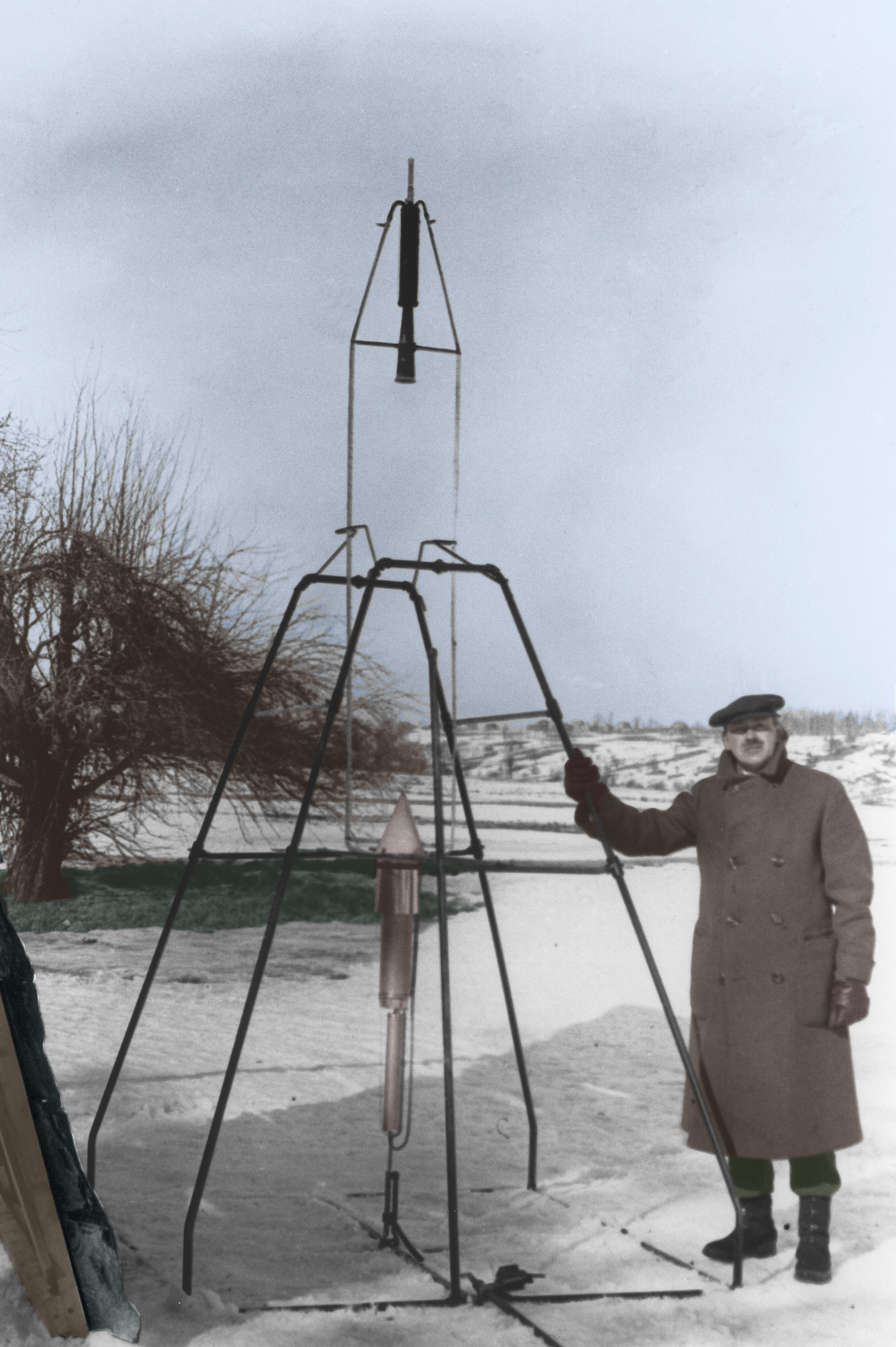 Robert Goddard holds the launching frame of the first liquid-fueled rocket.